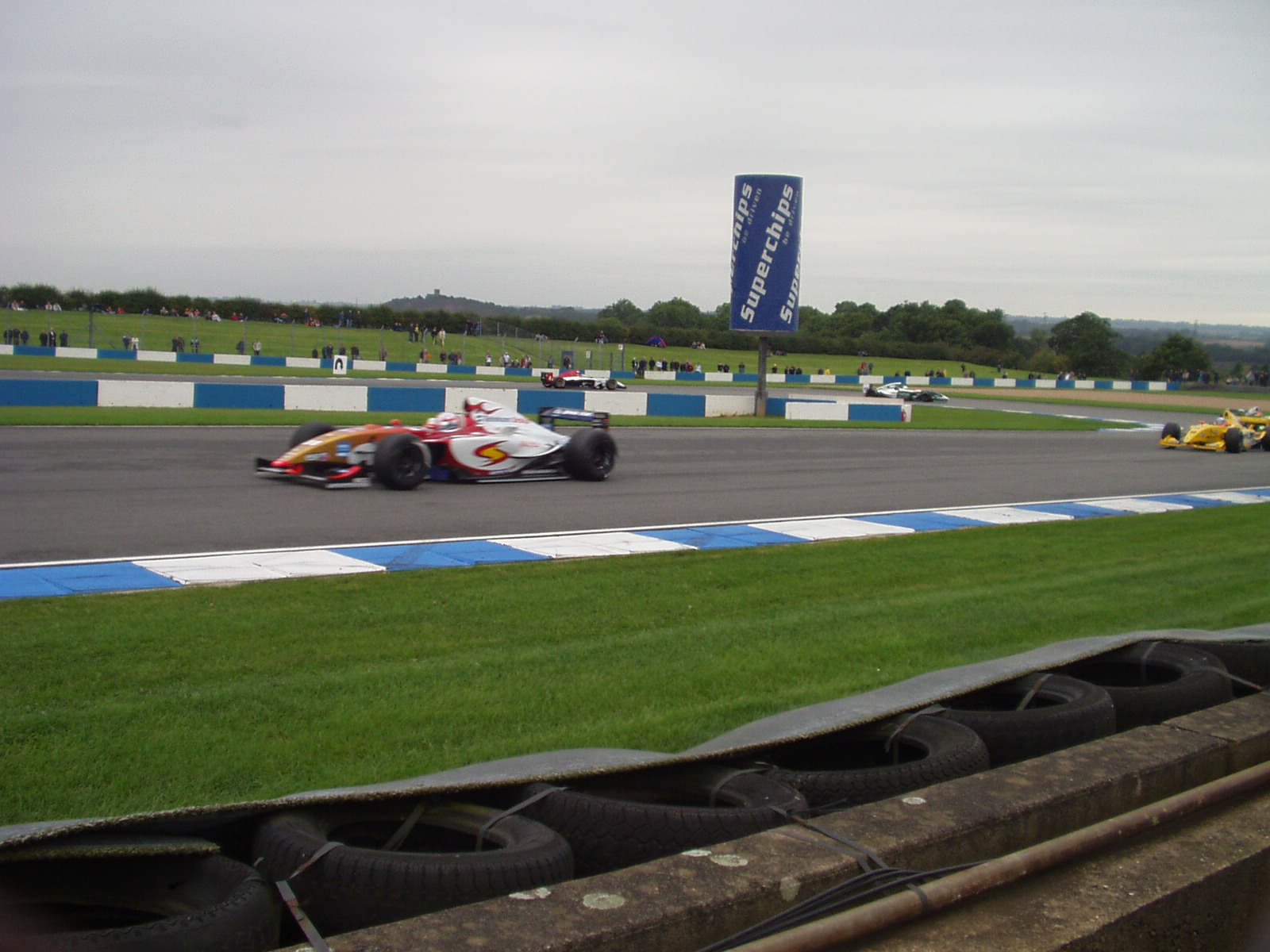 World Series by Renault, Melbourne Hairpin, Donington Park, UK